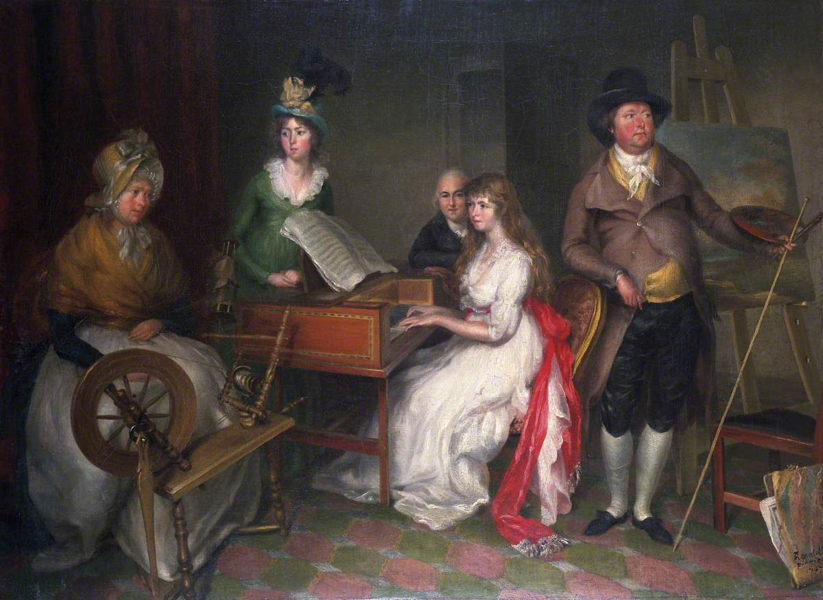 Welsh artist Thomas Jones with his family in Italy.